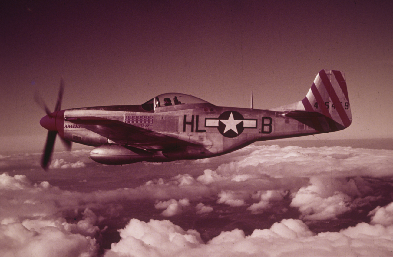 P-51D-15-NA Mustang (44-15459) "AMERICAN BEAUTY", flown by Capt John Voll, 308th FS/31st FG.